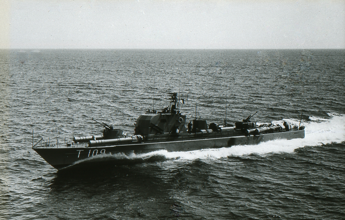 Torpedo boat HMS Antares (T109). Antares served with the Swedish Navy between 1956 and 1977, when she was decommissioned and sold to a private party. Antares was built by Lürssen shipyards, Bremen, West Germany. She was the ninth boat built in the Plejad-class. In total, the Swedish Navy had eleven Plejad torpedo boats. The last Plejad torpedo boat was decommissioned in 1981.